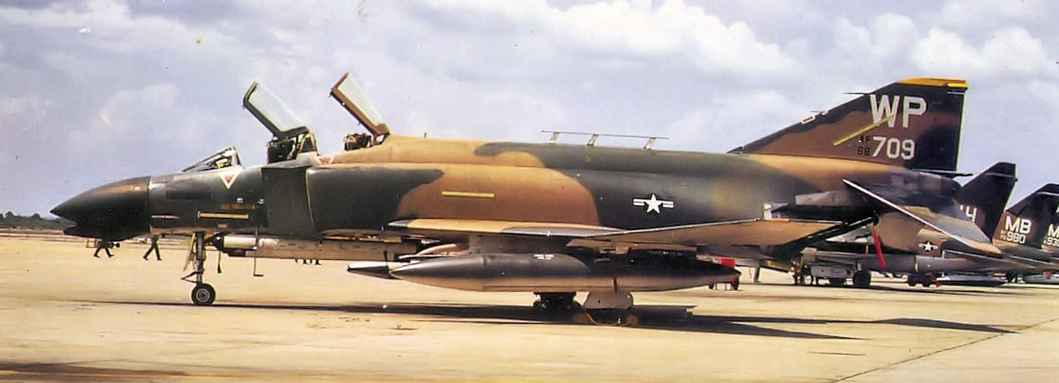 35th Tactical Fighter Squadron - McDonnell F-4D-32-MC Phantom - 66-8709 Taken at Korat RTAFB, Thailand, 1973